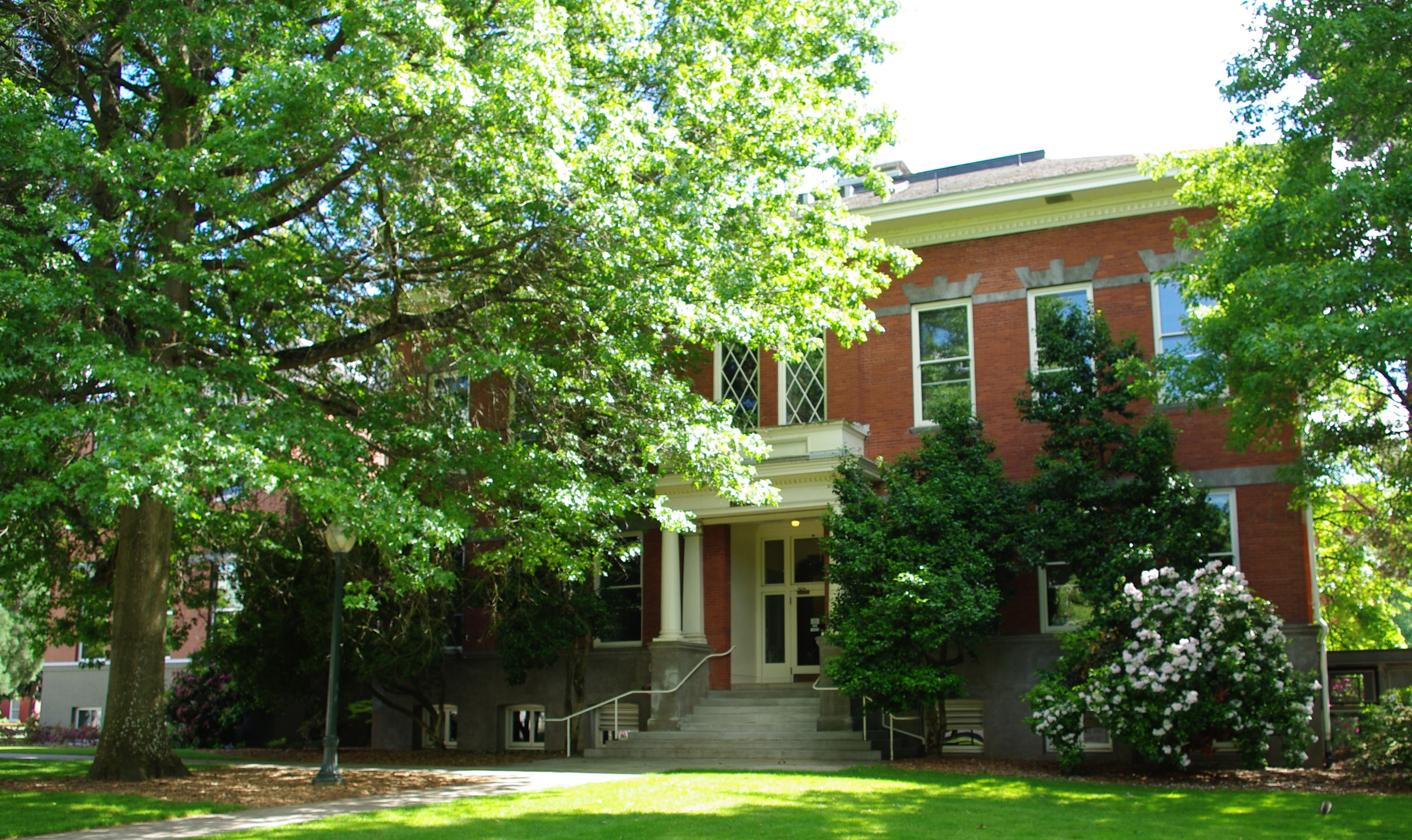 Art Building (Willamette University)